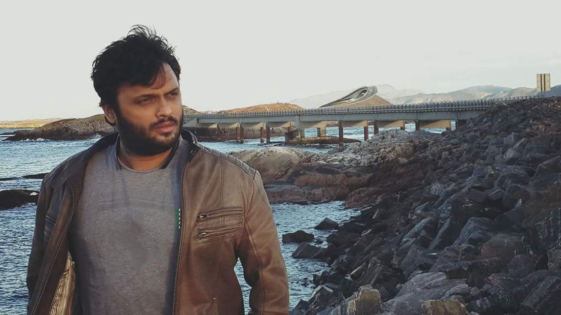 Imran Sardariya during the recce of the Kannada film 'Ricky'